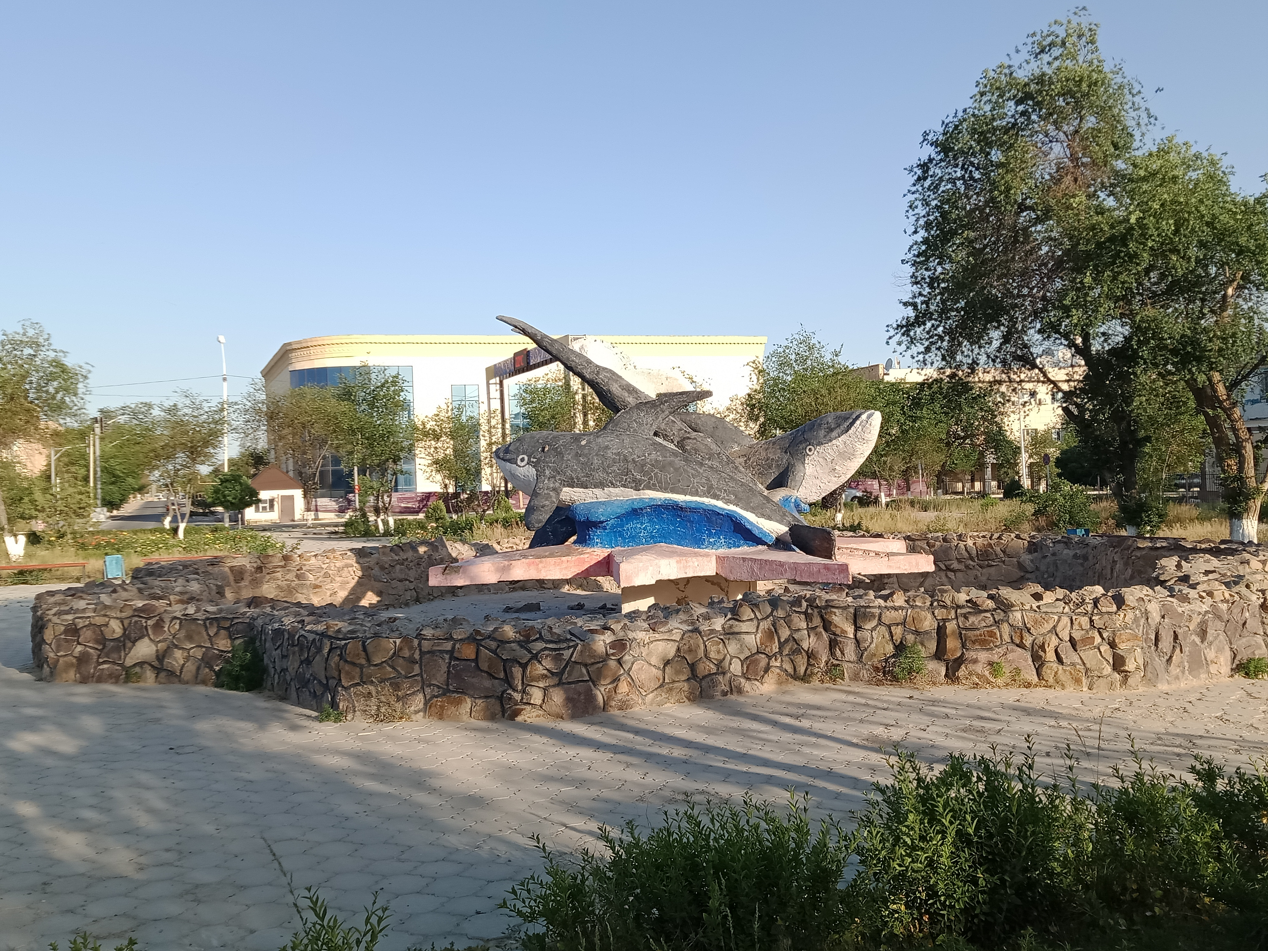 Soviet fountain in Zhanaozen